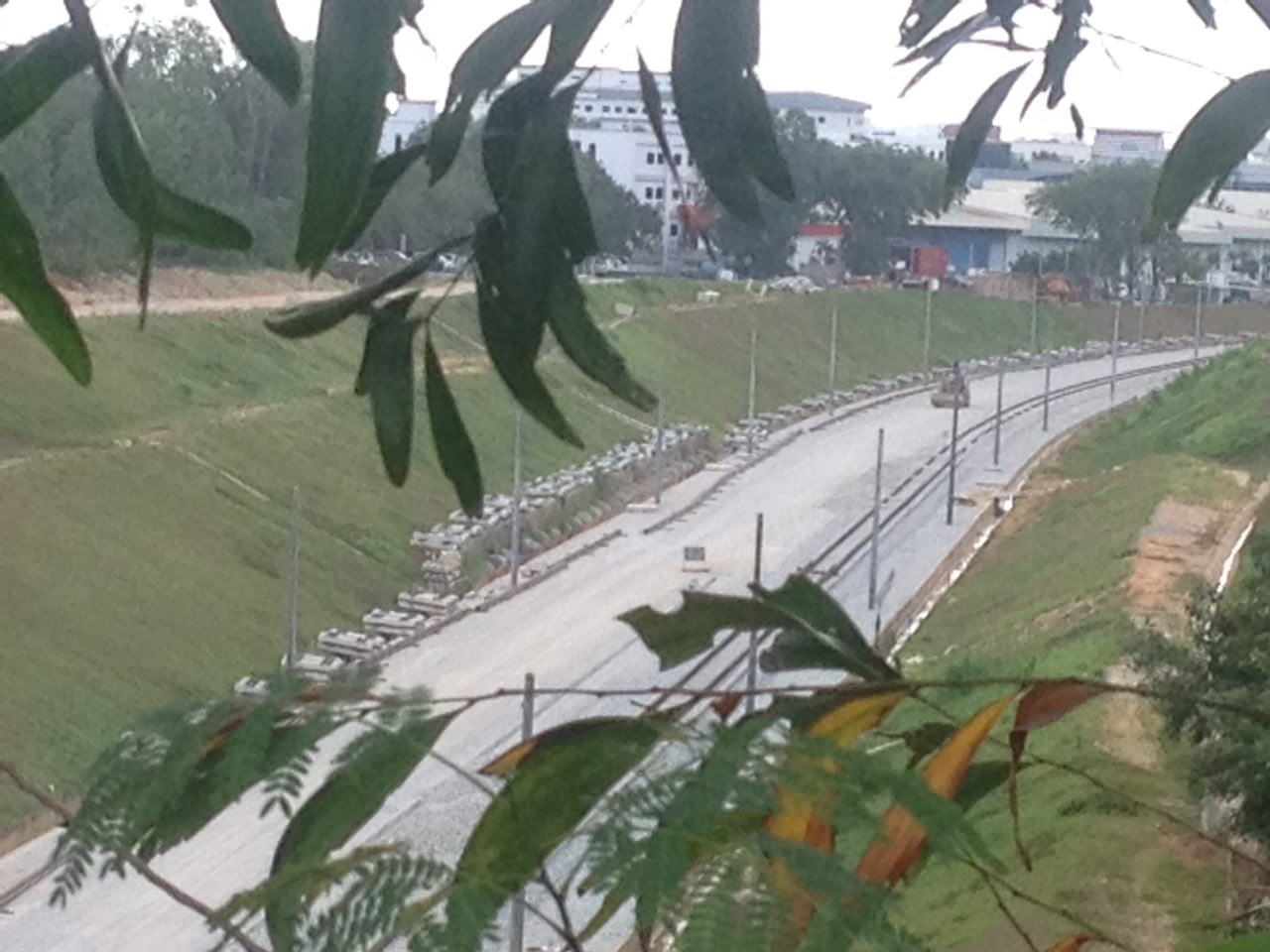 The under construction of Subang Airport Branch Line taken from Persiaran Kerjaya.